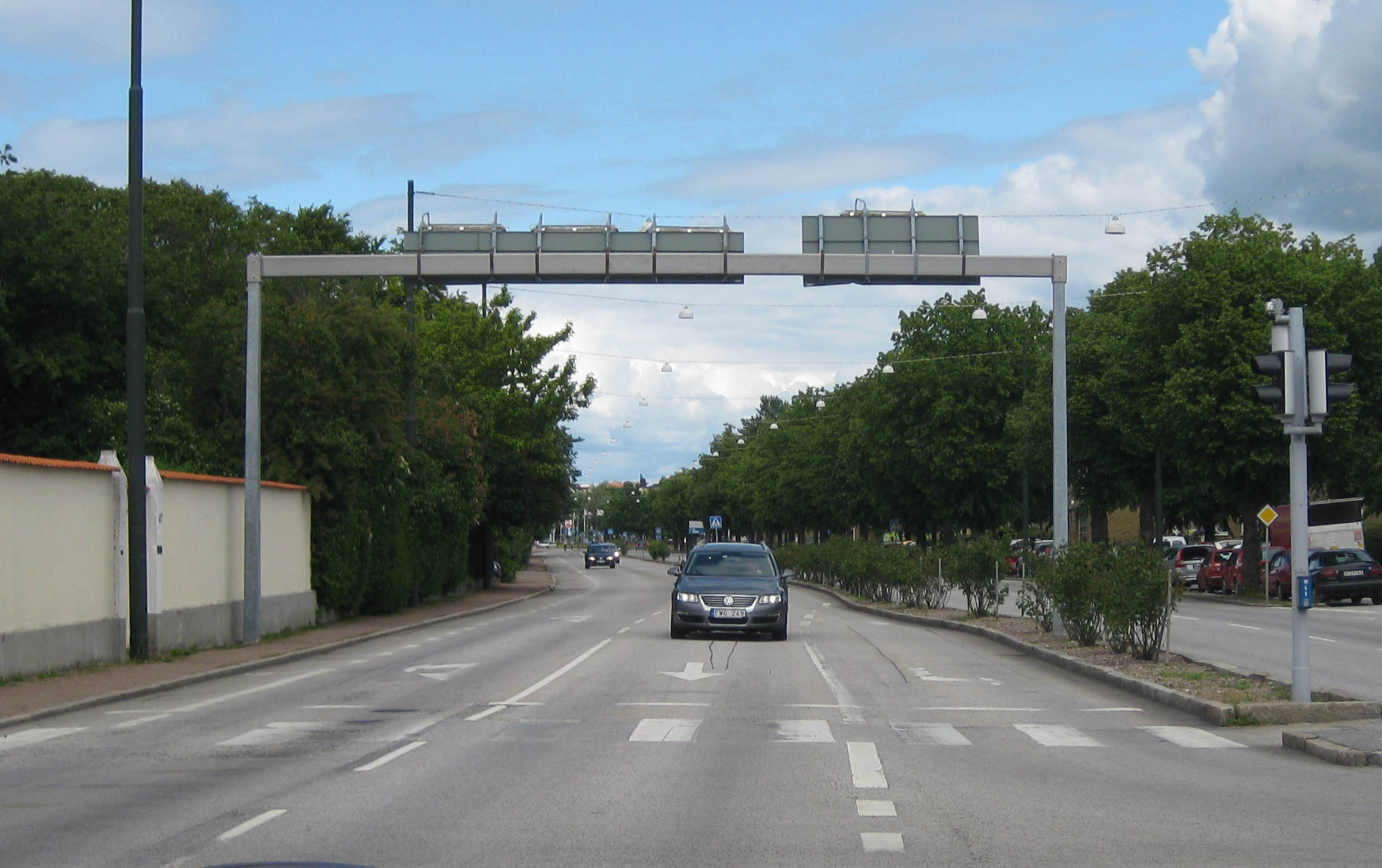 Linnégatan in Malmö, Skåne, Sweden